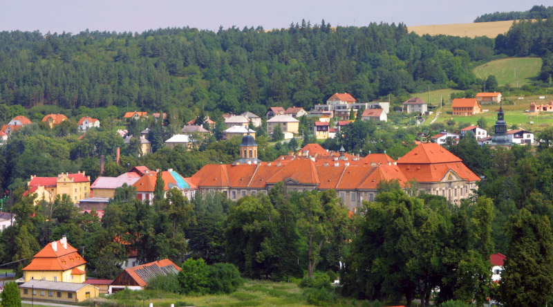 Plasy Monastery, Czech Republic.